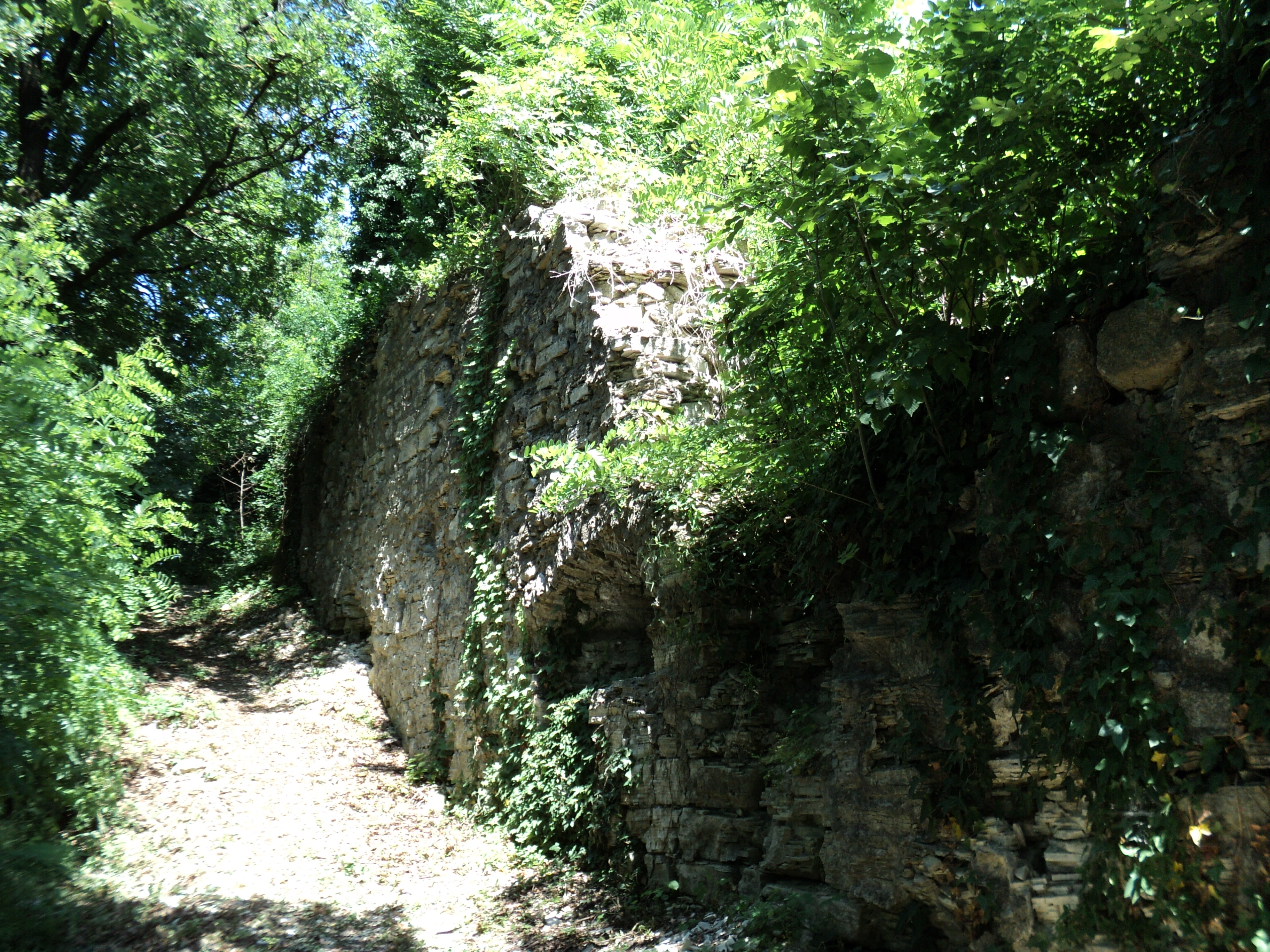 Walls of the Susedgrad Castle.